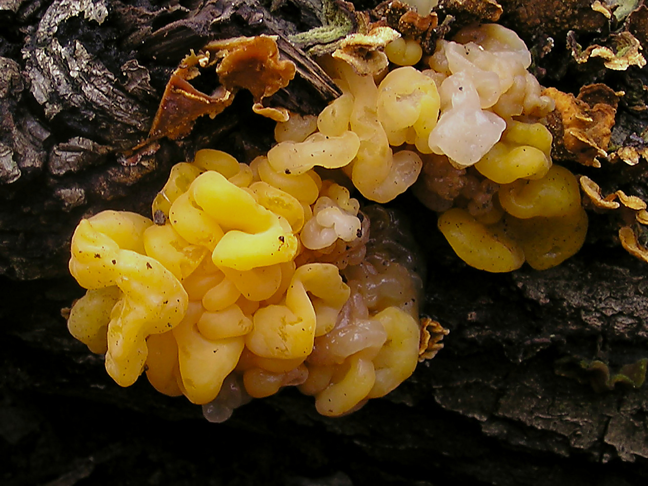 Summary Tremella mesenterica Photo taken by User:Strobilomyces (me) in a French wood on 1st February 2004